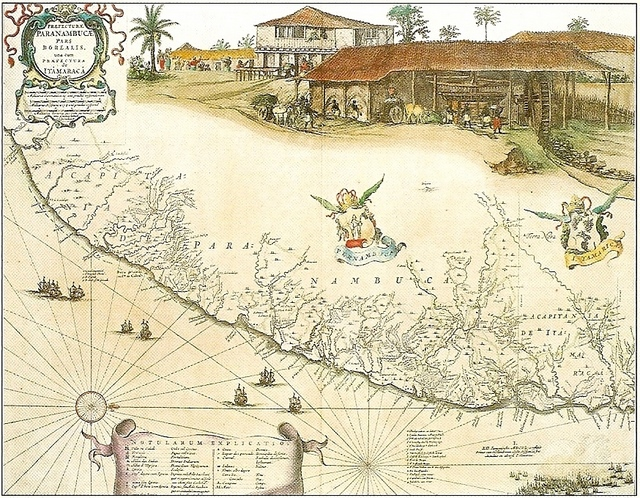 MARCGRAF, George. Map of Pernambuco including Itamaracá, 1643. Ricardo Brennand Institute collection, Recife, Brazil. Part of the cartographic set executed in 1643 for Barlaeu's book with illustrations by Frans Post.